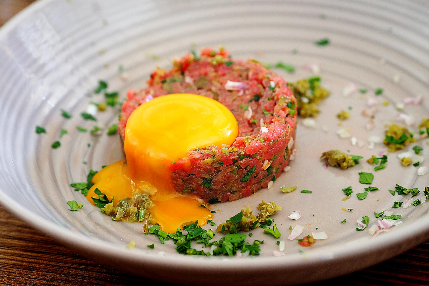 Sydney Food Blog Review of Le Grande Bouffe, Rozelle: Classic Steak Tartare